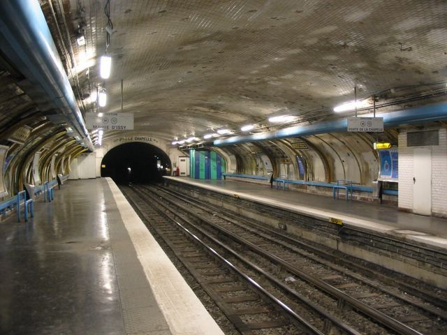 Summary Abbesses metro station on Paris Metro. Photograph taken by Anton Goralchuk.